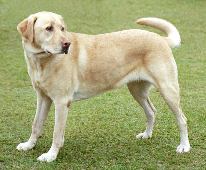 A yellow labrador retriver dog with pink nose. Photo taken by User:Elf October 2004 in Turlock, California at the Nunes Agility Field. Originally uploaded to the English wikipedia.